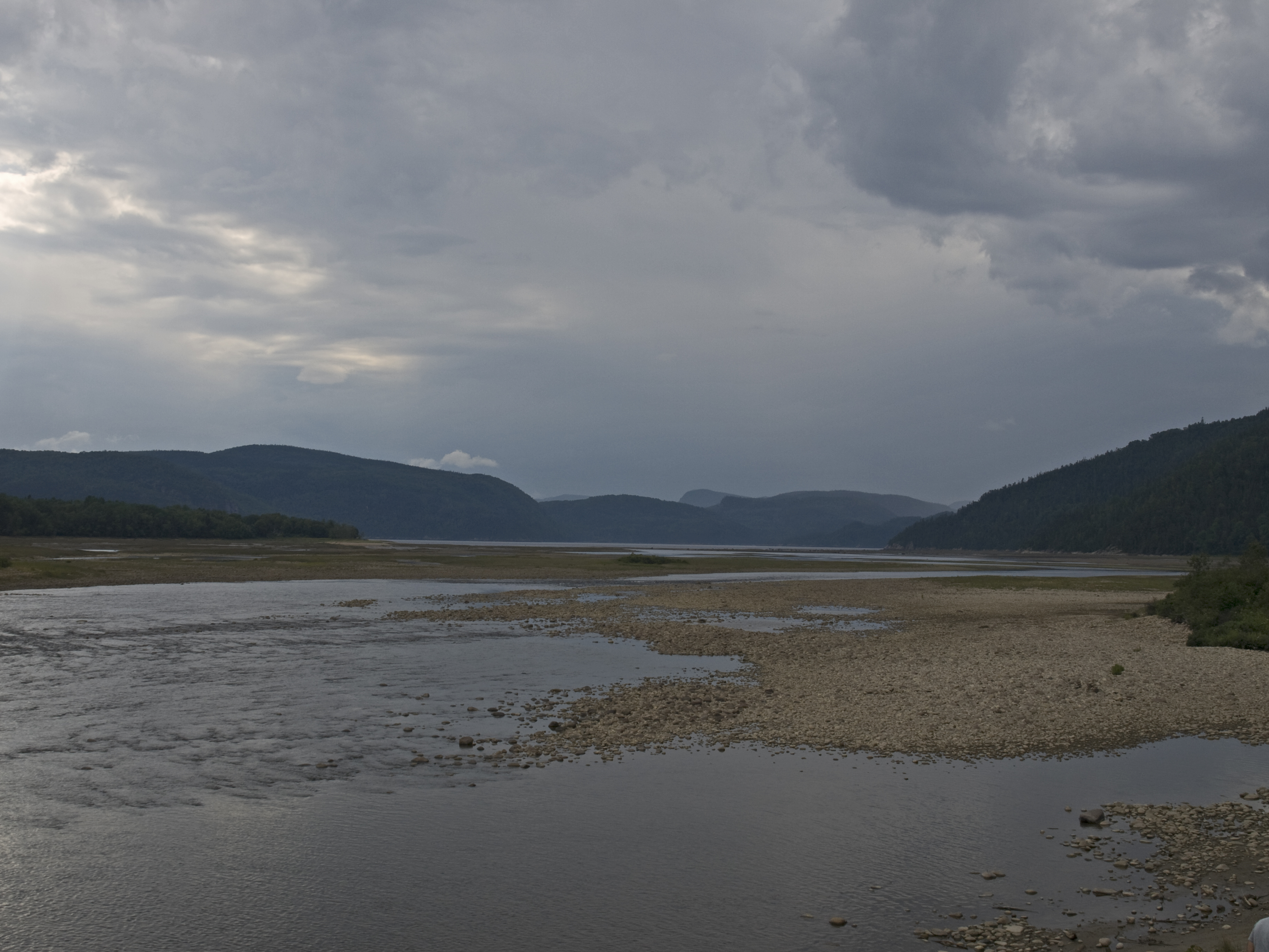 Baie-Sainte-Marguerite